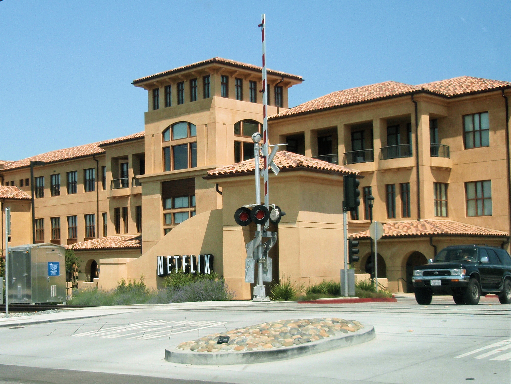 The headquarters of Netflix in Los Gatos.